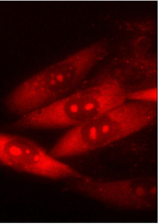 Localization of fluorescence-labelled ARC-type inhibitor in CHO cells (Biochimica et Biophysica Acta 1804 (2010) 541–546)